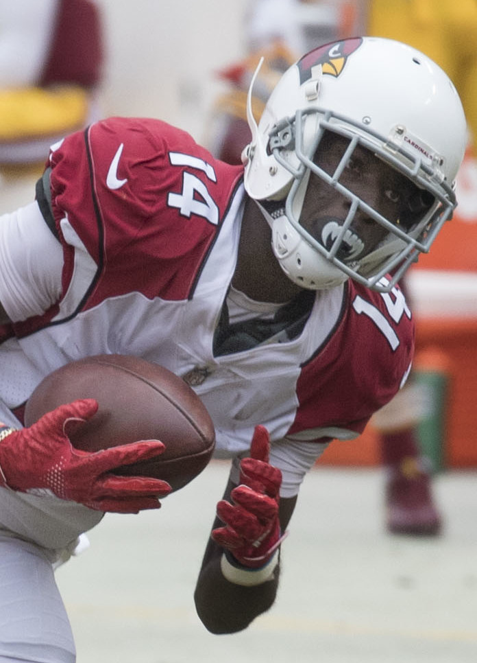 Cardinals at Redskins 12/17/17